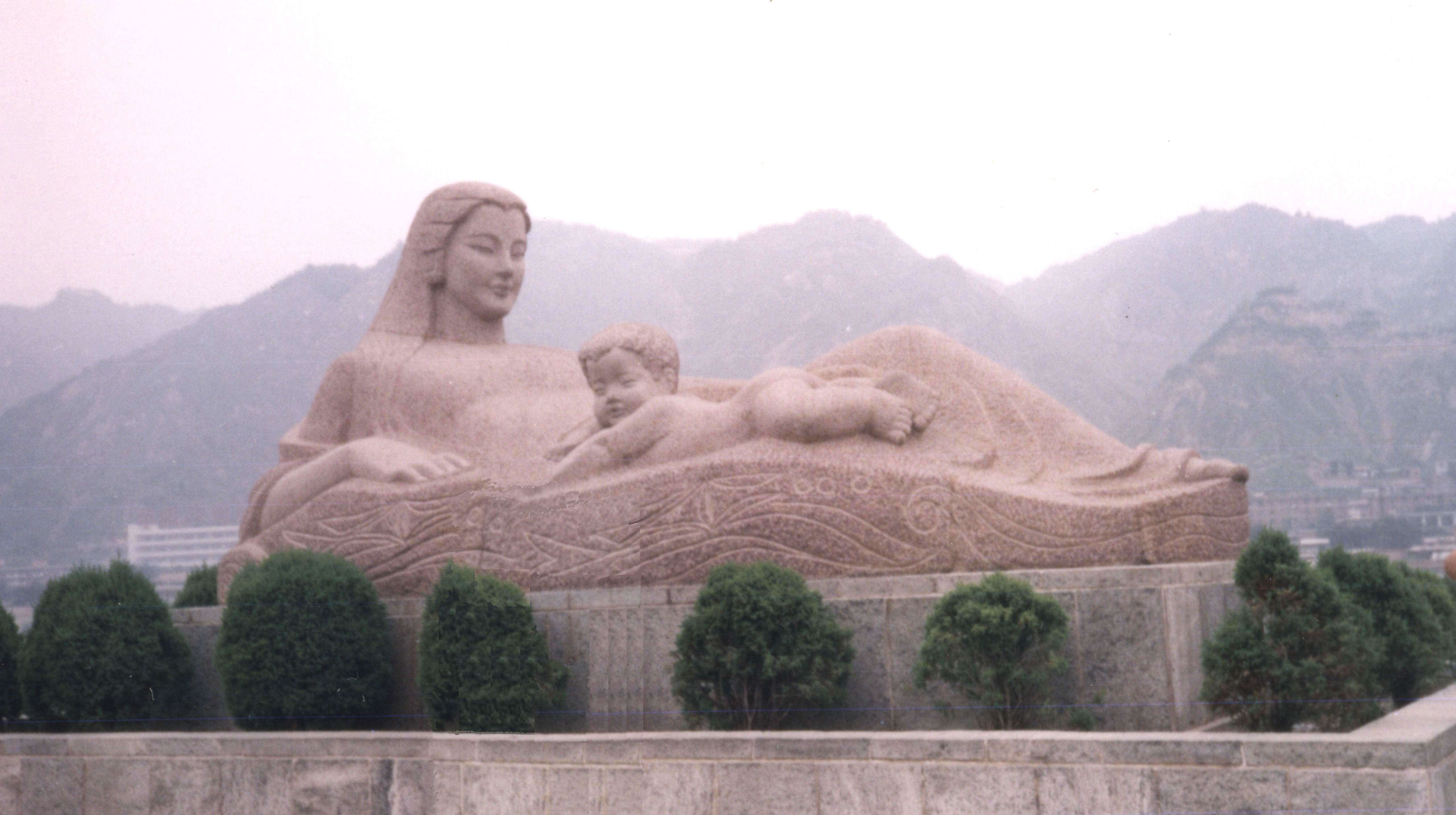 Mother Huang He statue in Lanzhou